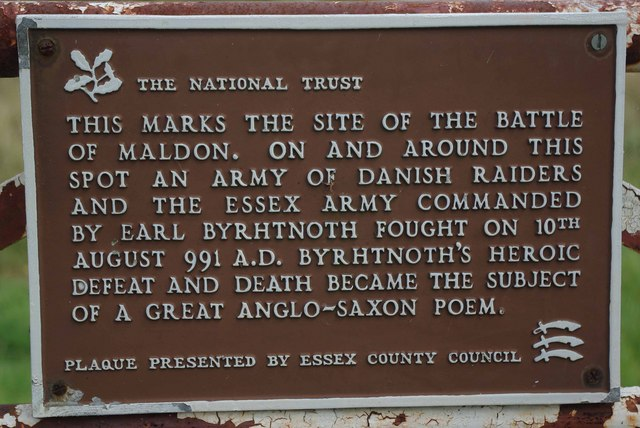 Byrhtnoth's Plaque. This plaque is on a gate in the car park for the National Trusts Northey Island see1462904 (Byrhtnoth is buried in Ely cathedral)